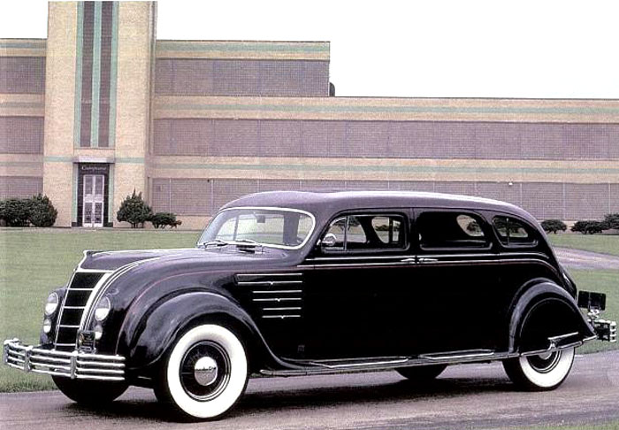 A 1934 Chrysler Imperial CX Series, one of the first cars designed and developed with the wind tunnel. This file has been released also in the public domain by the copyright holder, its copyright has expired or it is ineligible for copyright. This applies worldwide.